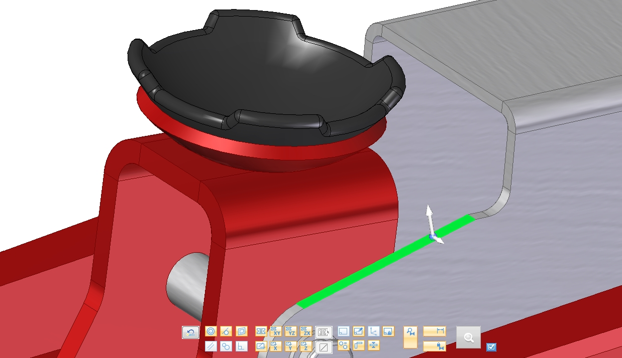 Picture of demonstrating synchronous editing of a assembly.